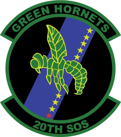 20th Special Operations Squadron Patch